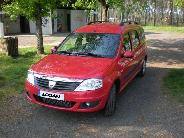 Dacia Logan MCV Laureate Red 2009 model